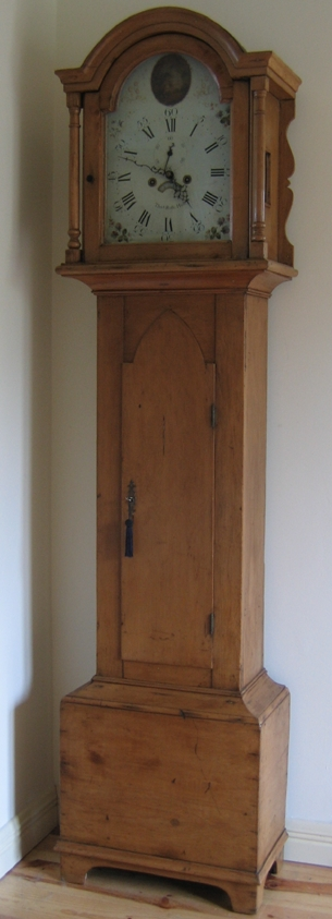 In April 2006 I took this photograph of my longcase clock, which was made in pine in c. 1790 by Thomas Ross of Hull. Evertype 17:11, 19 April 2006 (UTC)